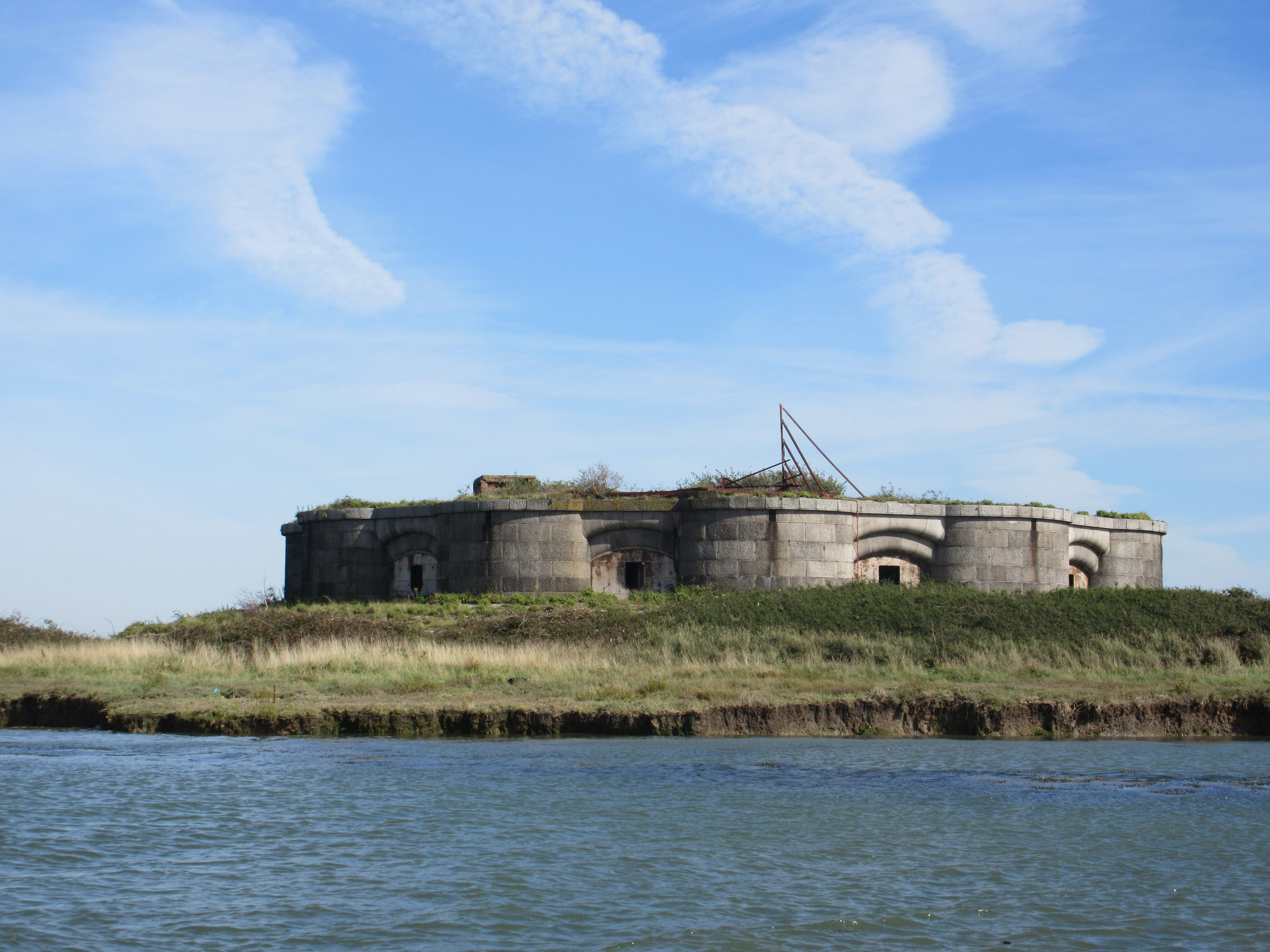 A disused Napoleonic fort in the River Medway.